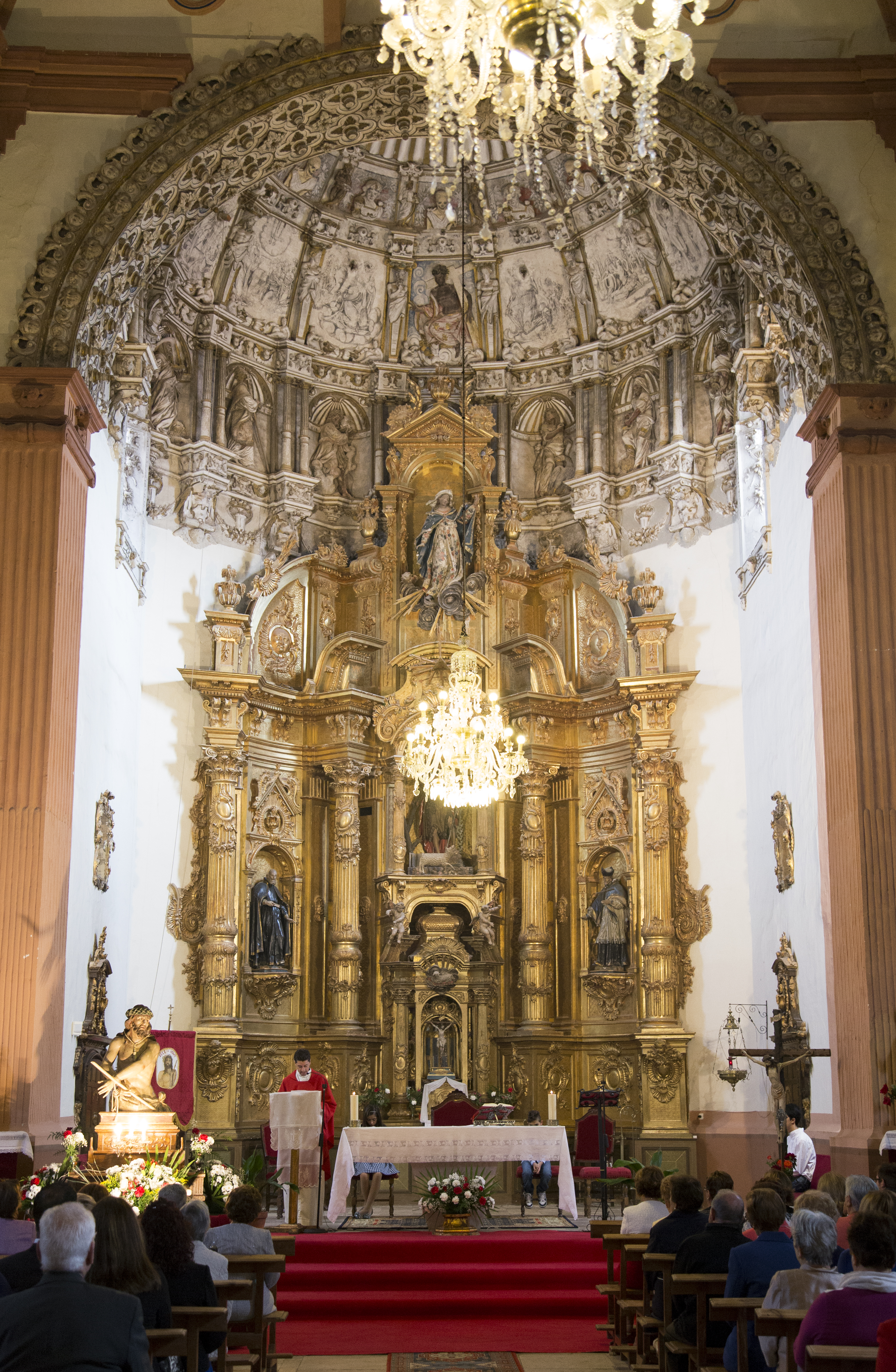 Church of St. John the Baptist in Rodilana, Valladolid, Spain